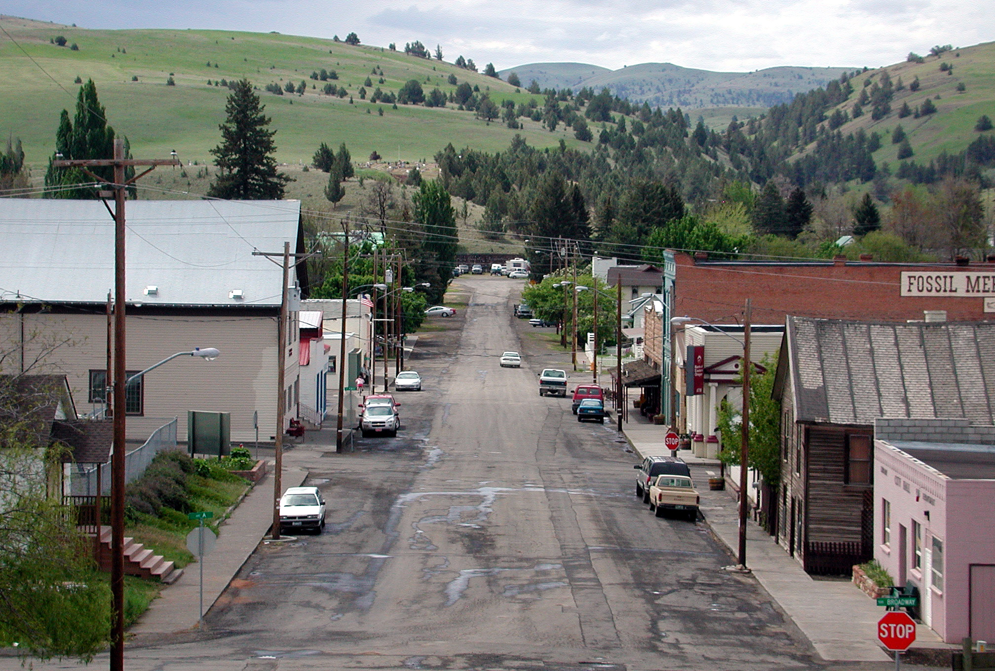 Main Street in Fossil, Oregon, looking south from the high school parking lot